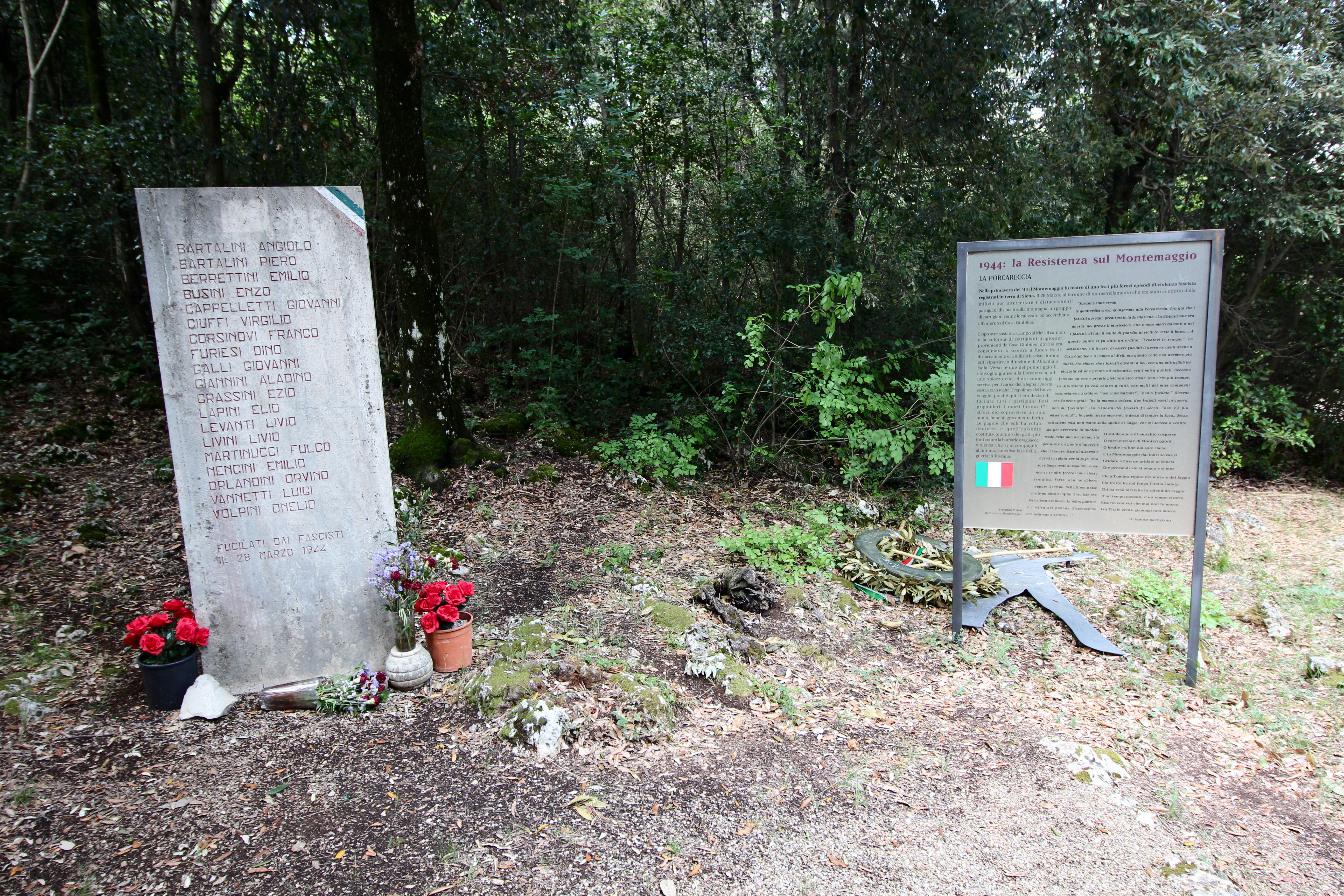 Monumento ai Caduti, La Porcareccia, on Mount Maggio (Montemaggio), in woods south of Badia a Isola, Monteriggioni, Province of Siena, Tuscany, Italy